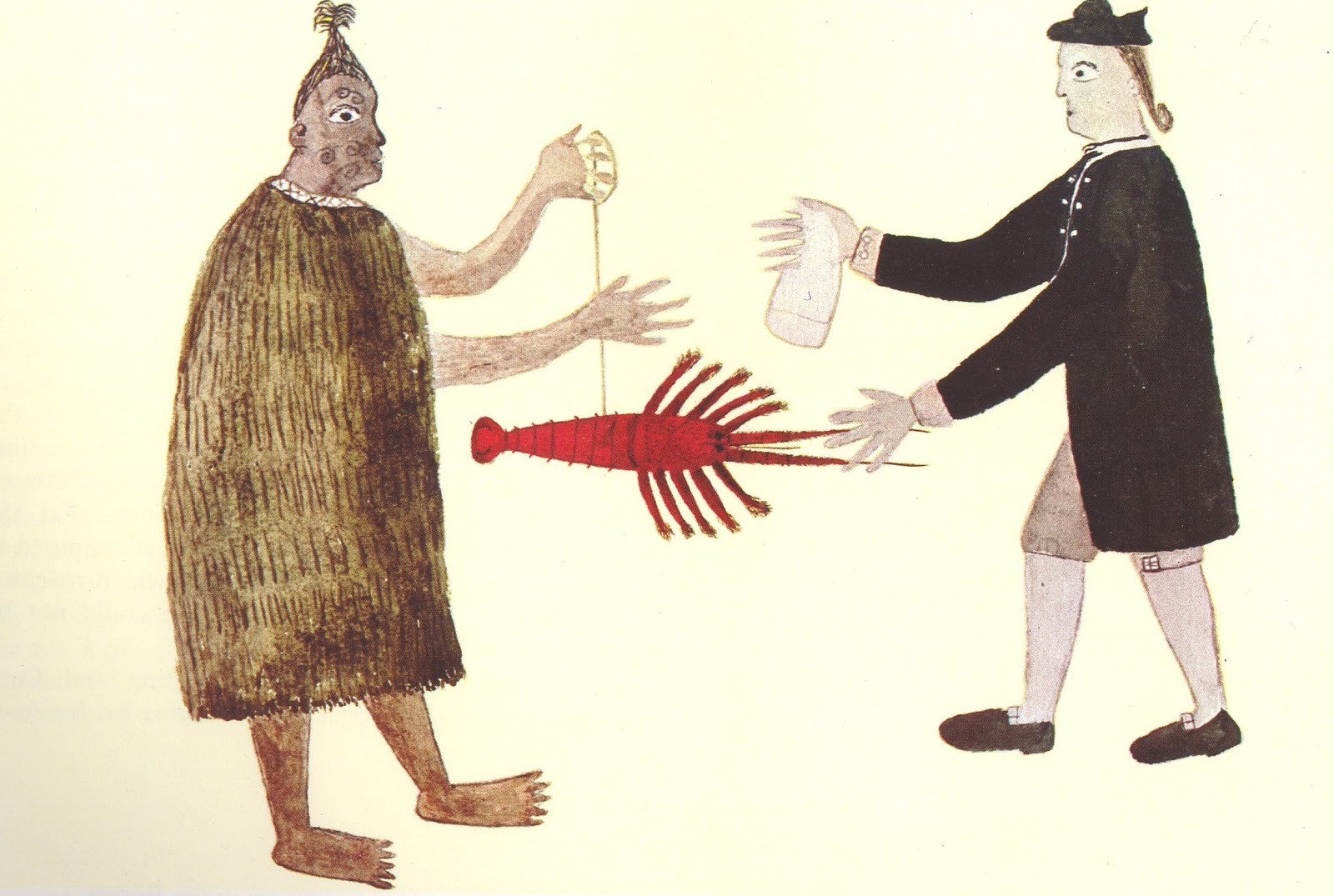 "A Maori man and Joseph Banks exchanging a crayfish for a piece of cloth." An alternative caption to this picture is “An English Naval Officer bartering with a Maori” and is attributed to “The Artist of the Chief Mourner”. Since the man portrayed is wearing a Naval Uniform there is a valid question of whether or not this is Banks.